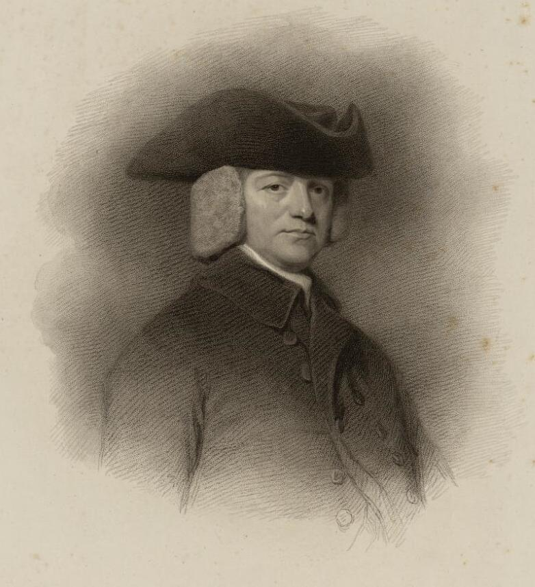 A portrait from the Welsh Portrait Collection at the National Library of Wales. Depicted person: Richard Watson – (1737–1816) Anglican bishop and academic